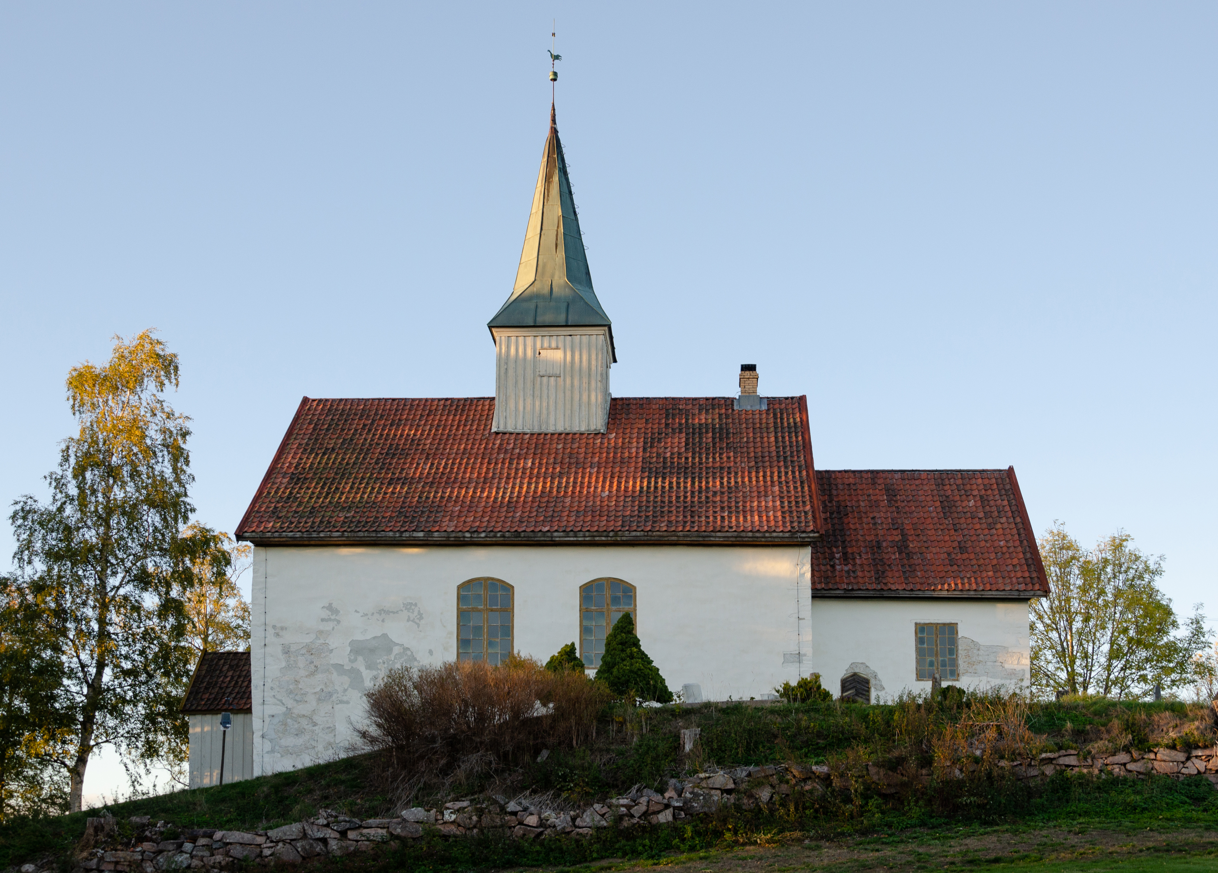 Skoger old church, originally constructed in the 1200s.